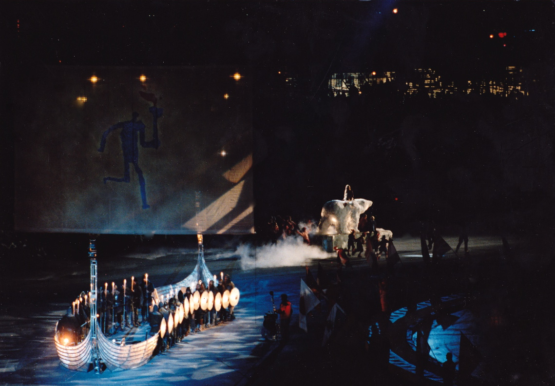 Kjersti Alveberg directing the Norwegian Olympic Ceremony